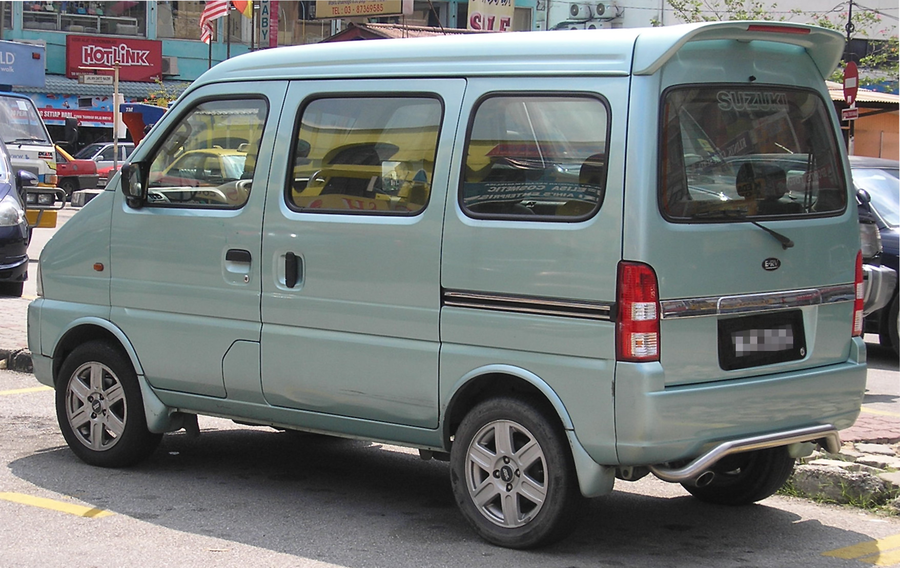 Rear-side shot of a Suzuki E-RV, essentially a five-door version of the Suzuki Carry, in Kajang, Selangor, Malaysia.